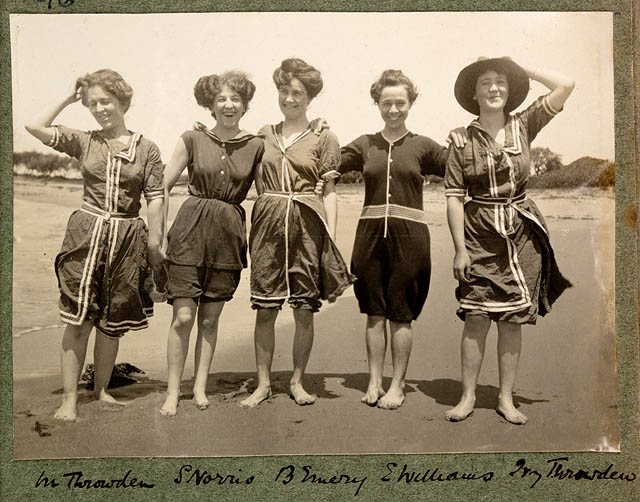 Format: Photograph Find out more about this photograph: .au/item/itemDetailPaged.aspx?itemID=442931 Search for more great images in the State Library's collections: .au/search/SimpleSearch.aspx From the collection of the State Library of New South Wales